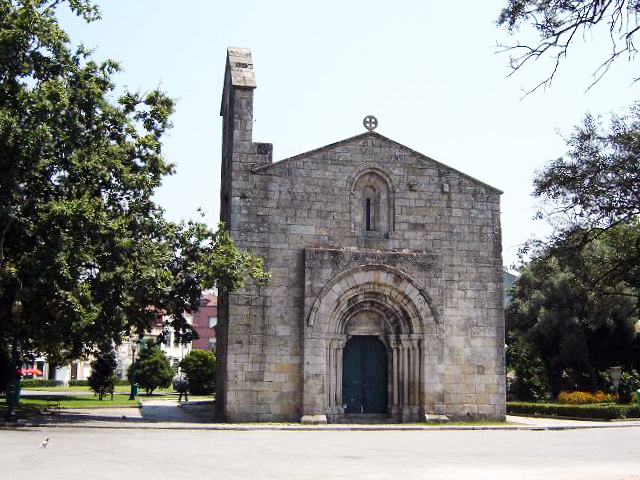 São Martinho de Cedofeita church. Located at freguesia of Cedofeita, Porto, Portugal.